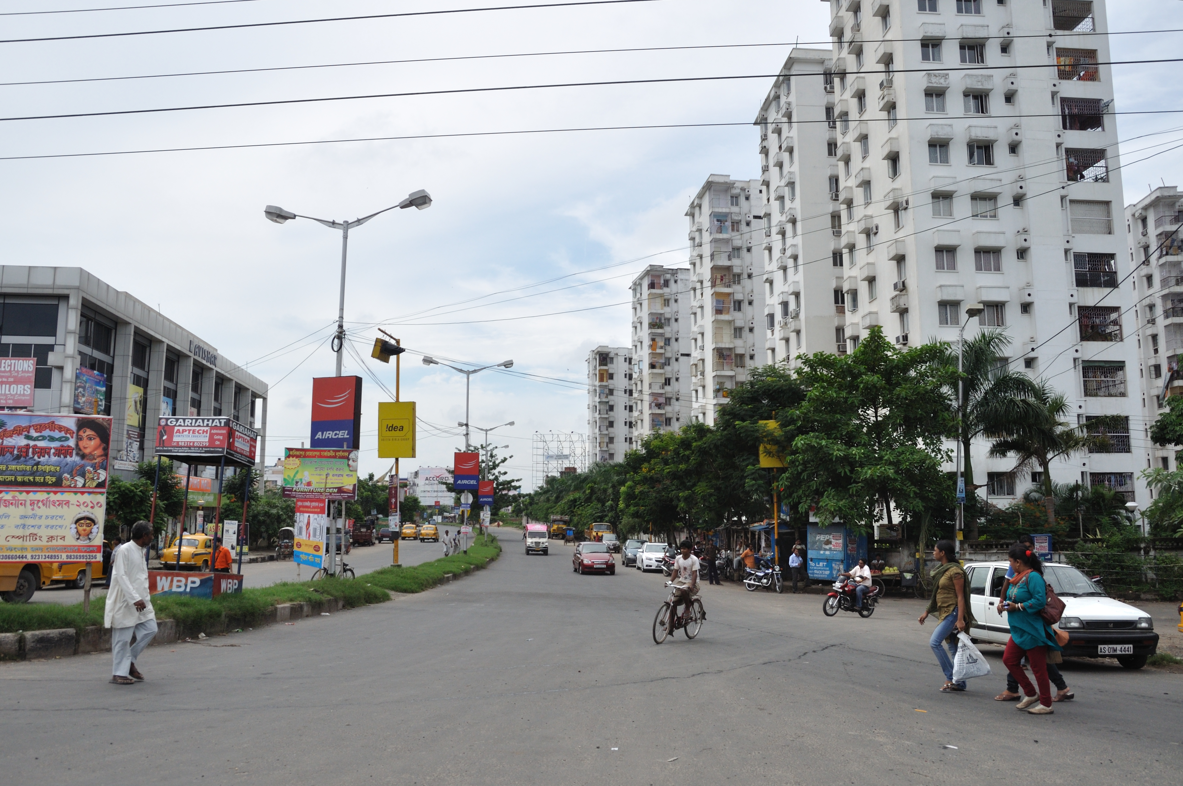 Prince Anwar Shah Road connector to the Eastern Metropolitan Bypass, Kolkata.